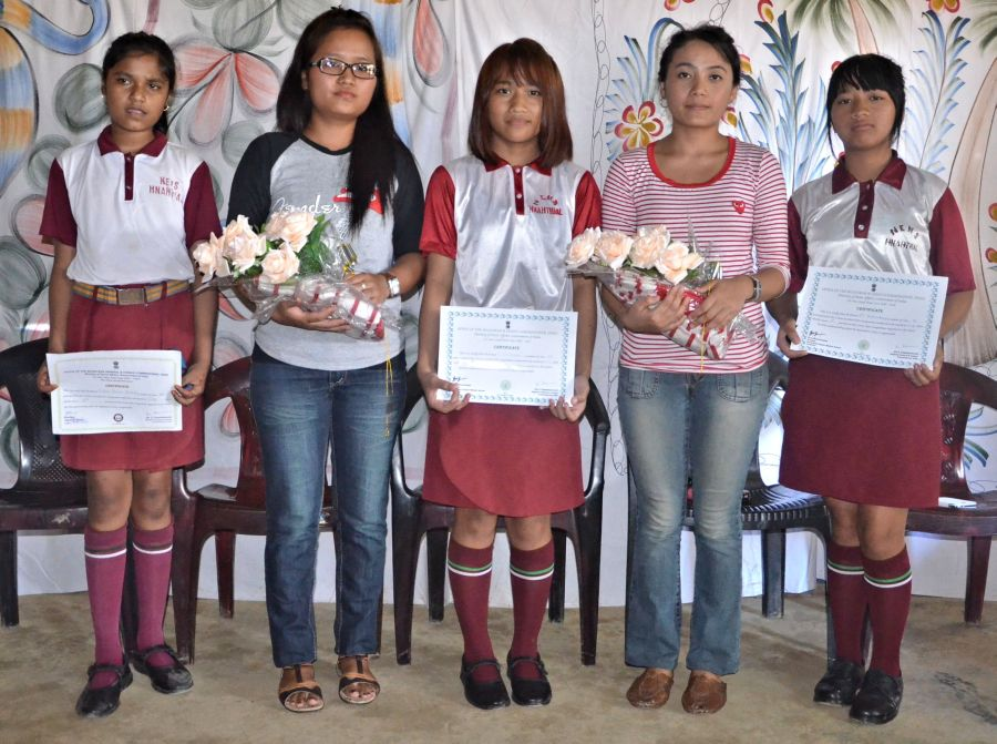 Brilliant students and alumni of Nuchhungi English Medium School, Hnahthial who held top positions in Mizoram.